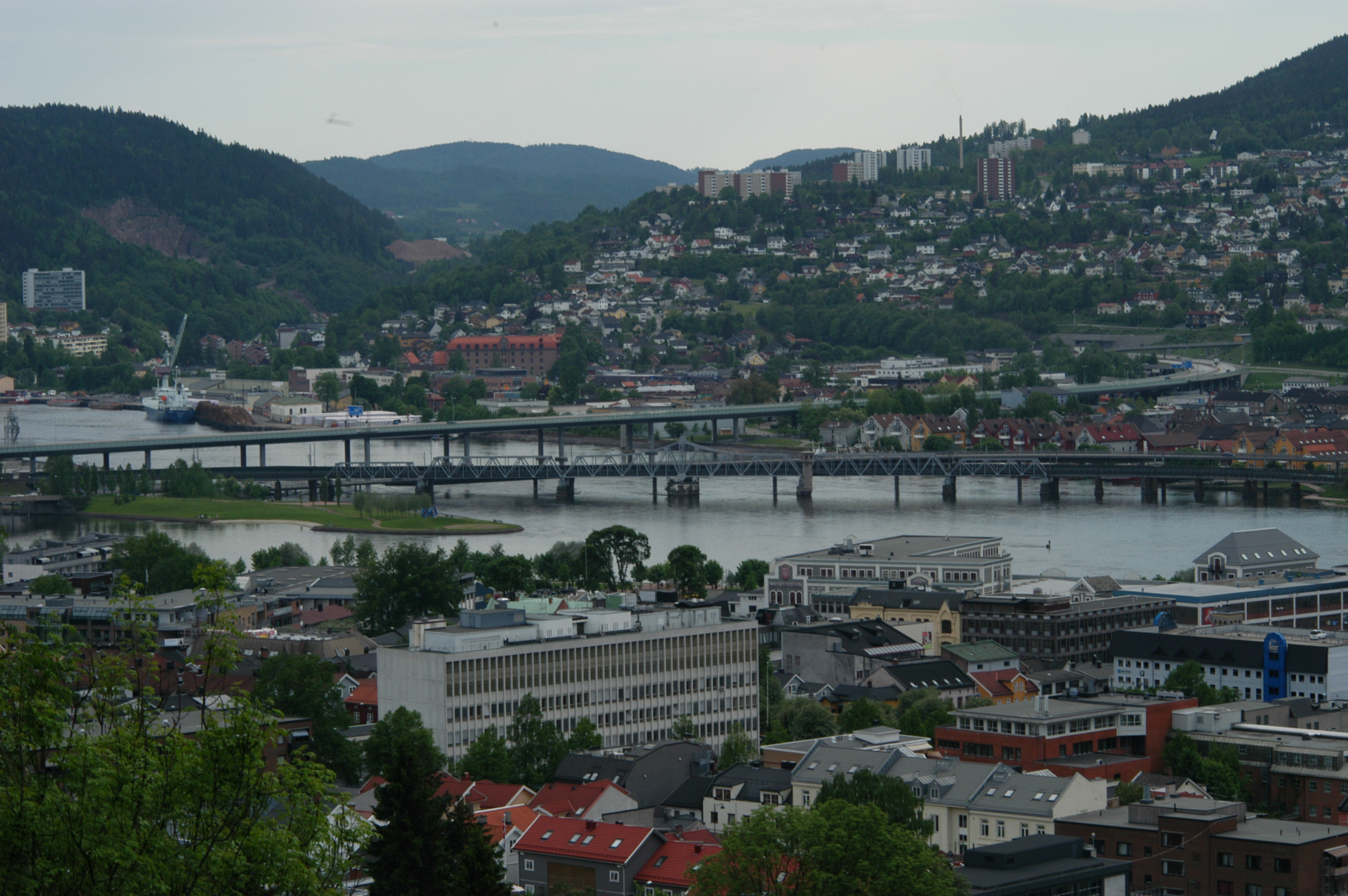 The "Holmen bridges" in Drammen, seen from the northwest.